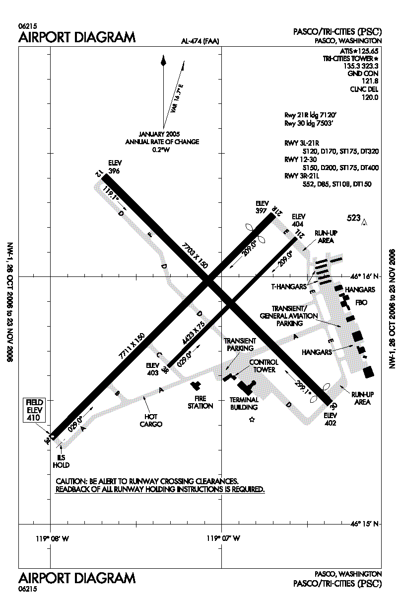 FAA airport diagram for PSC (Tri-Cities Airport) in Washington, United States.